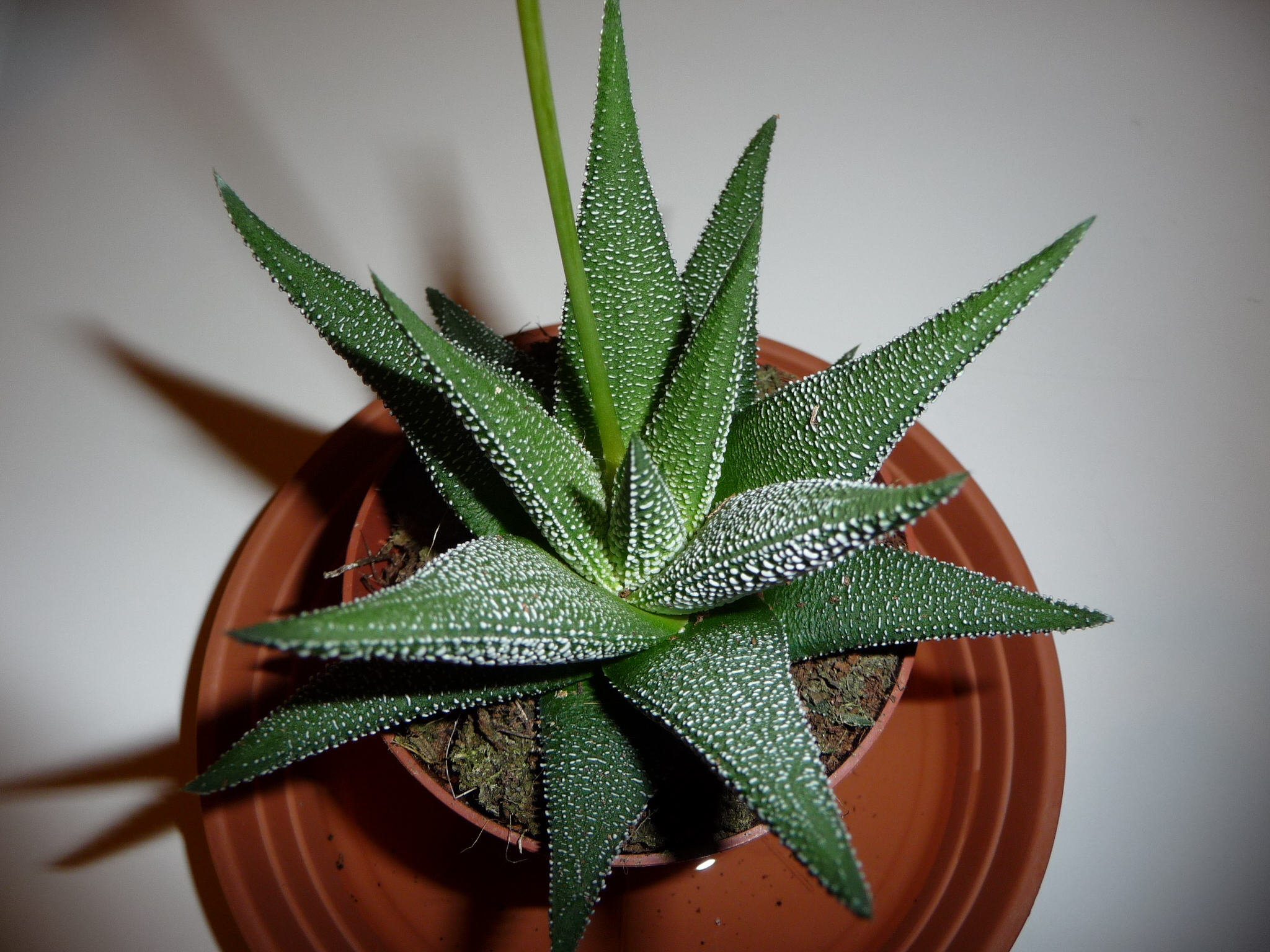 A succulent plant (or fat plant) named Haworthia lassytha